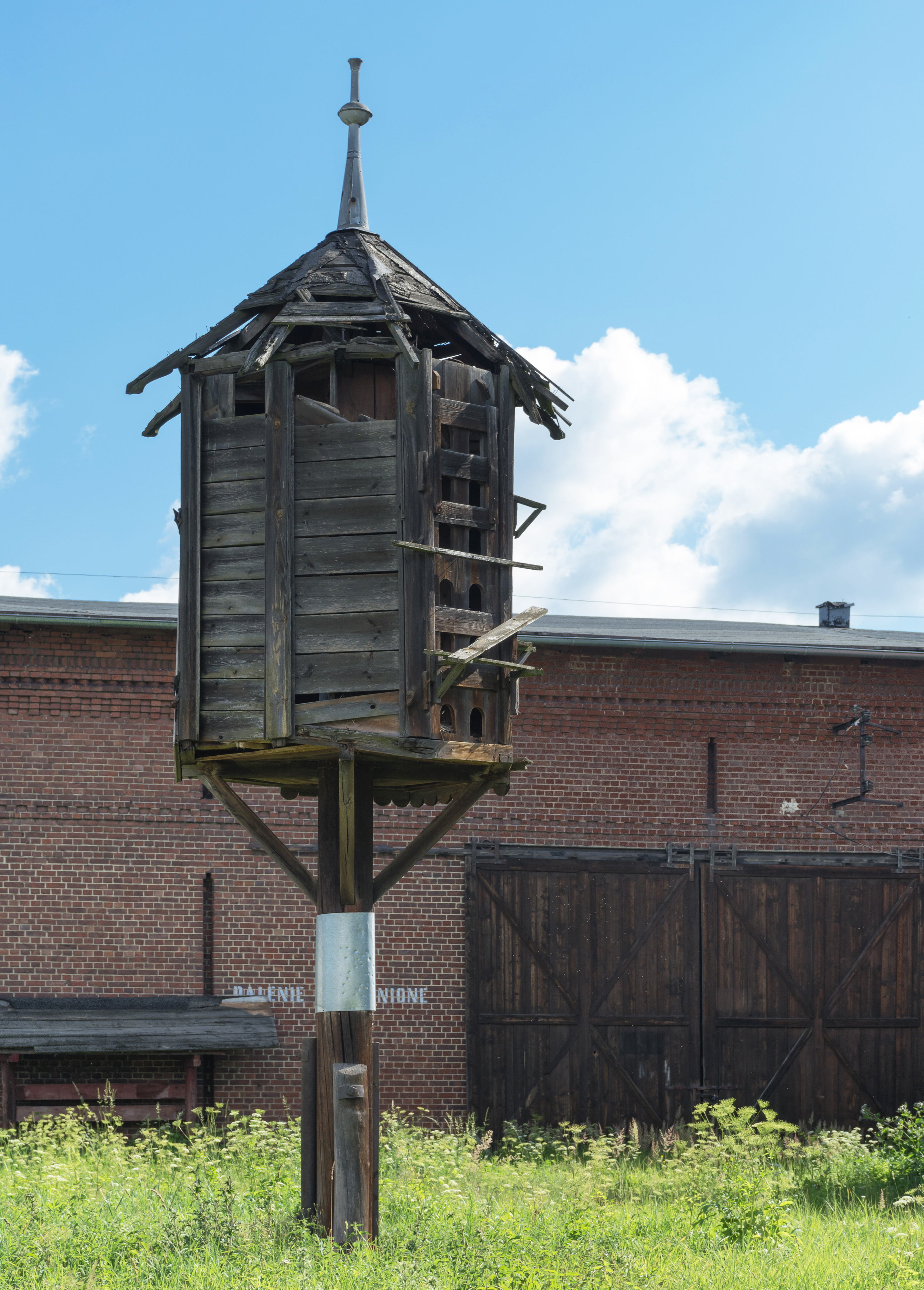 Manor in Ławica, dovecote